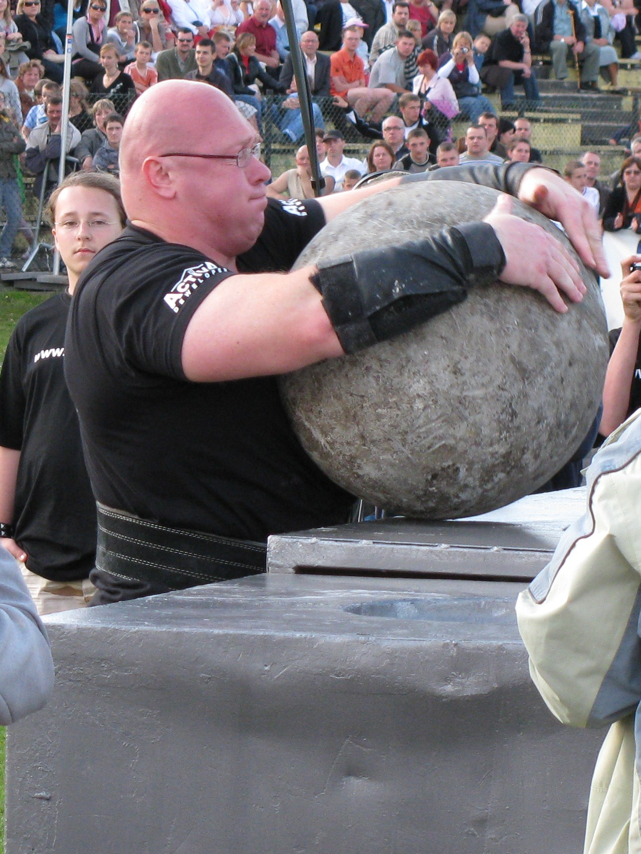 Strongmen event: the Atlas Stones & Krzysztof Schabowski.